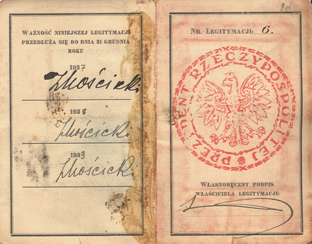 The ID Card of the member of Polish goverment Felicjan Sławoj Składkowski (1885-1962)